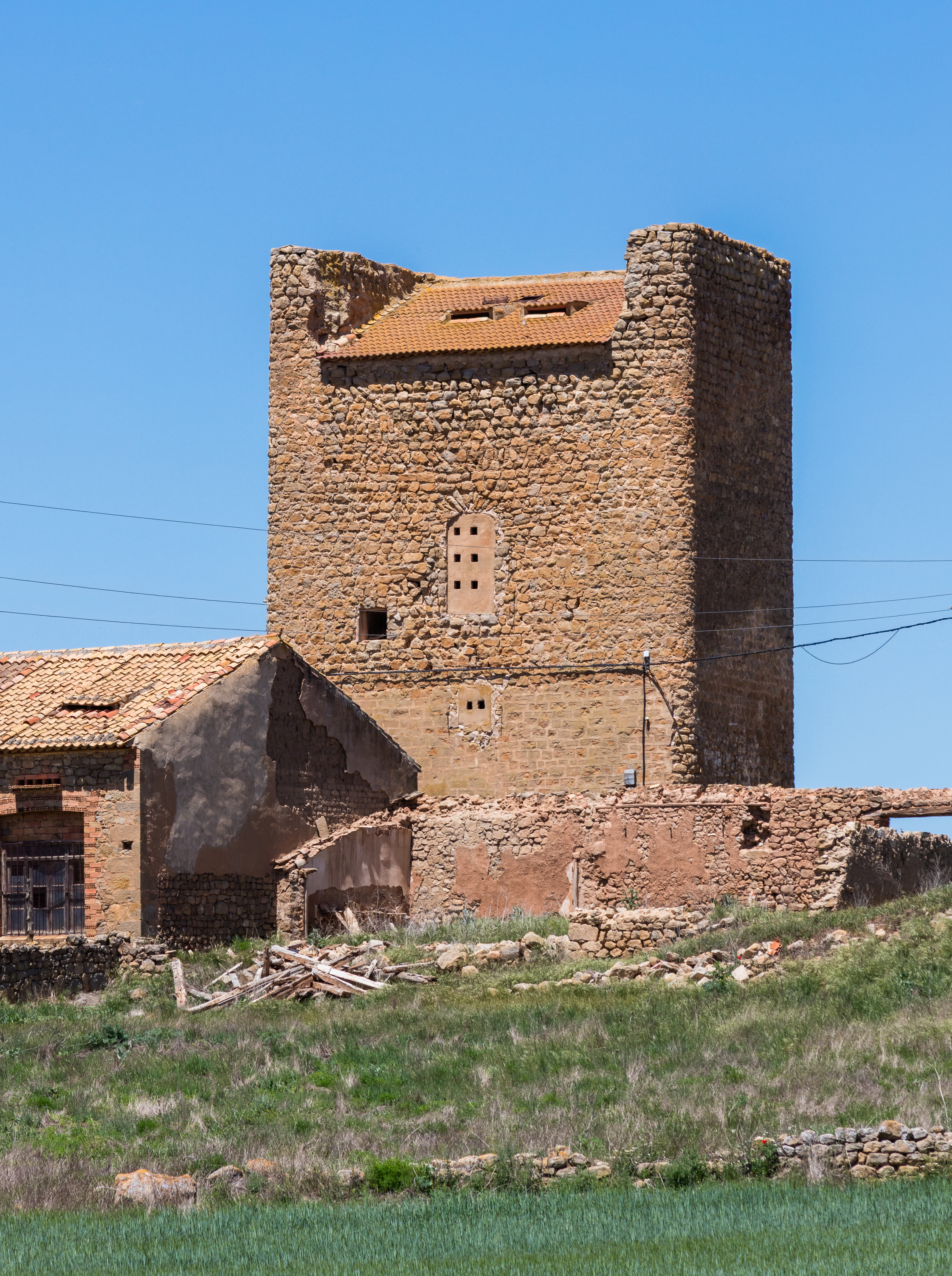 Tower of Villanueva de Zamajón, Soria, Spain